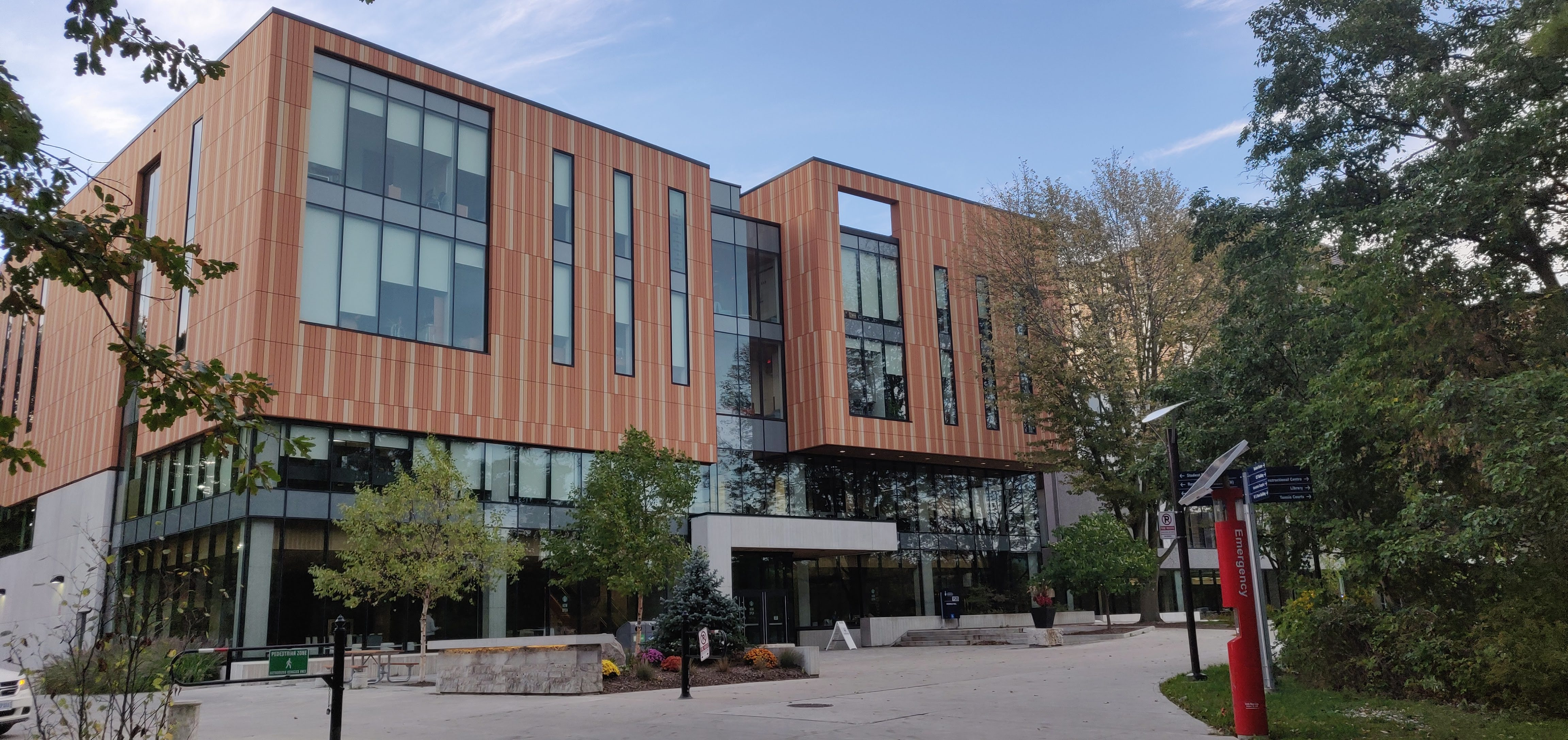 A photo of Deerfield Hall at the University of Toronto Mississauga as seen from the 5 minute walk.